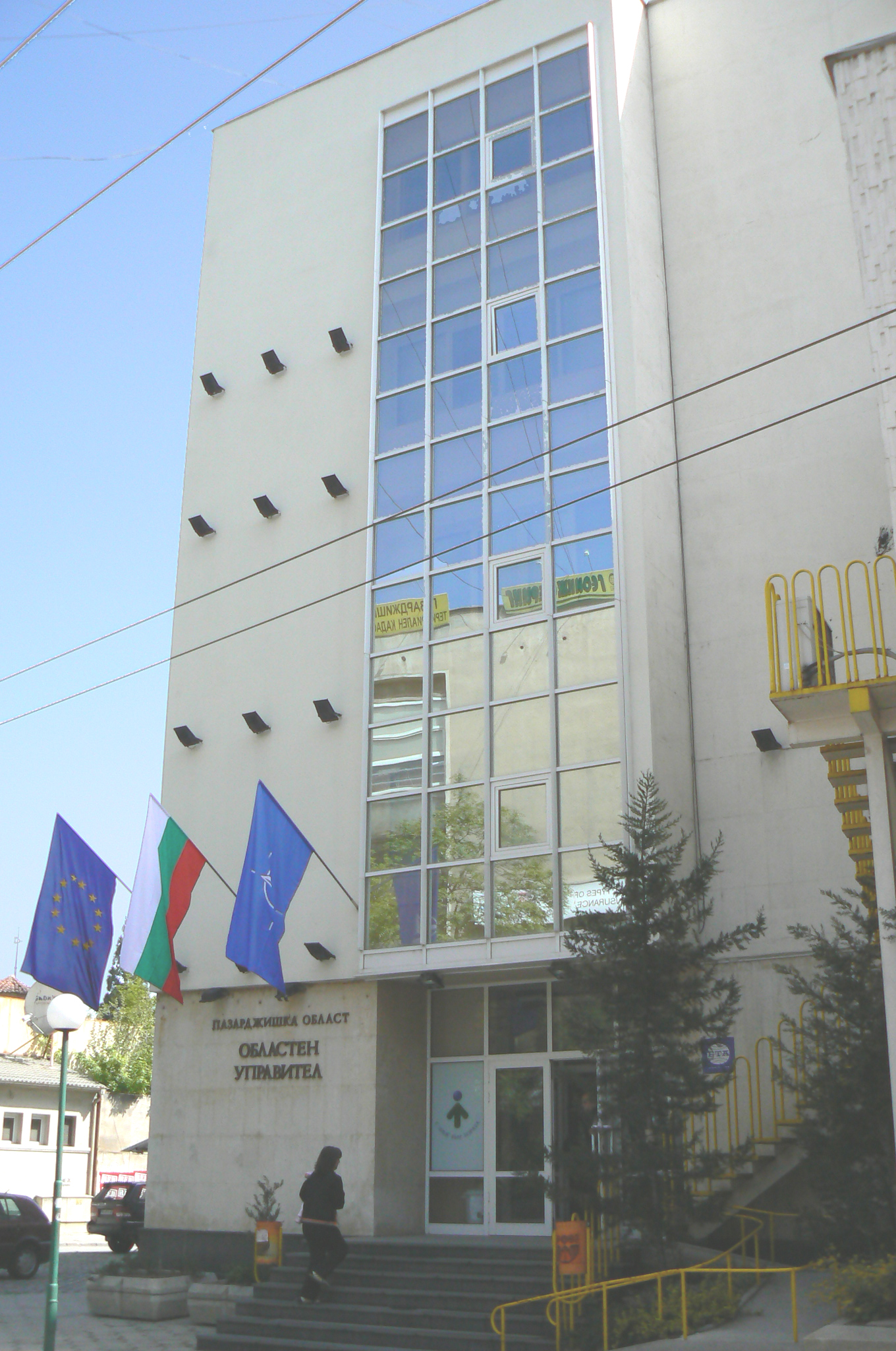 Building of the Governor of District Pazardjik. Pazardjik, Bulgaria